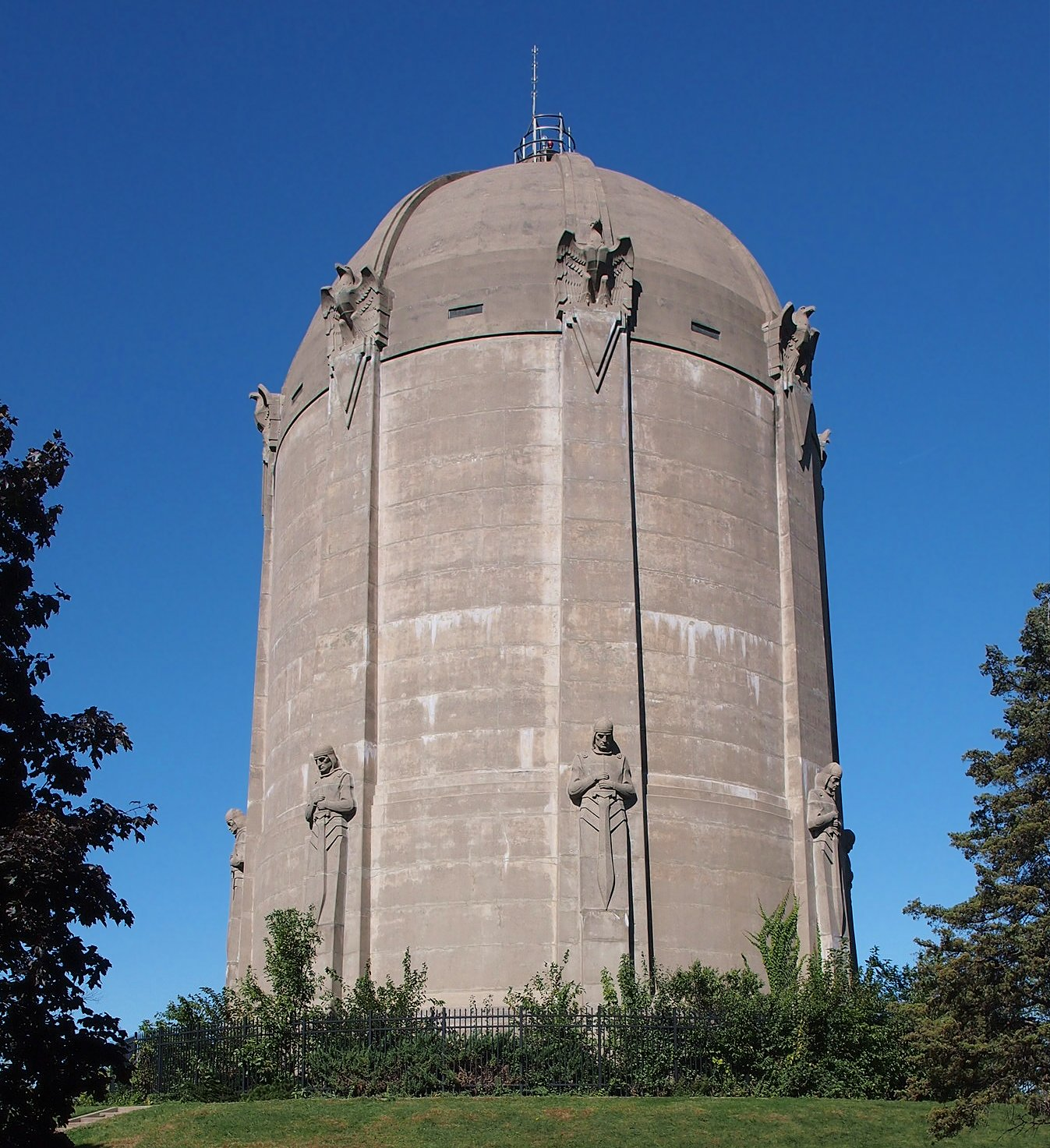 Washburn Park Water Tower, 401 Prospect Ave, Minneapolis, Minnesota, USA. Viewed from the southeast.